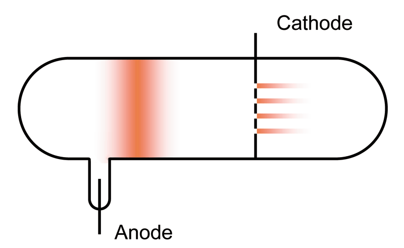 Discharge tube for the observation of canal rays (anode rays).